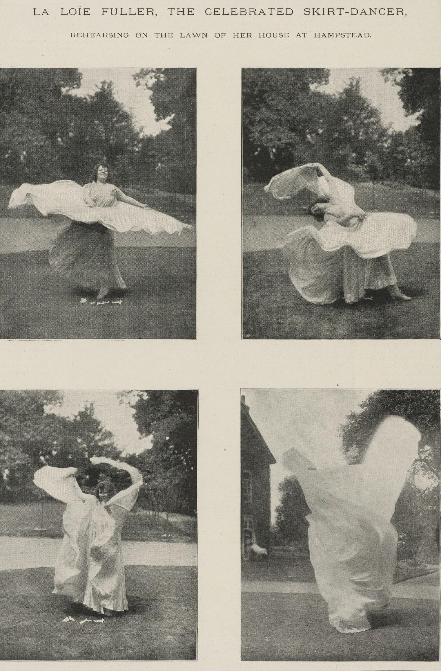 Composite of four photographs, labeled "La Loie Fuller, The Celebrated Skirt-Dancer, rehearsing on the lawn of her house at Hampstead." MS Thr 415 (Box 7, Folder 283.15), Houghton Library, Harvard University